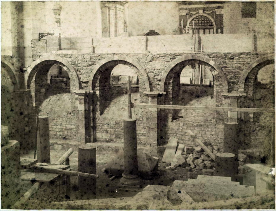 Rebuilding of the crypt of the Basilica of Saint Servatius, Maastricht, the Netherlands. Photo taken by Theodore Weijnen in 1881 during the restoration campaign led by Pierre Cuypers.